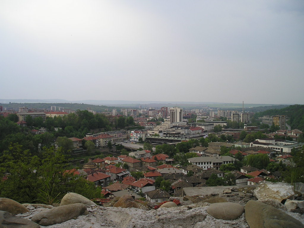 Lovech, Bulgaria - view from the Hisarya castle